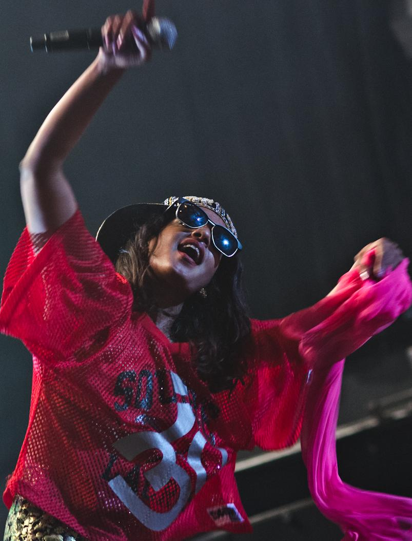 M.I.A. perfoming at Terminal 5, New York.